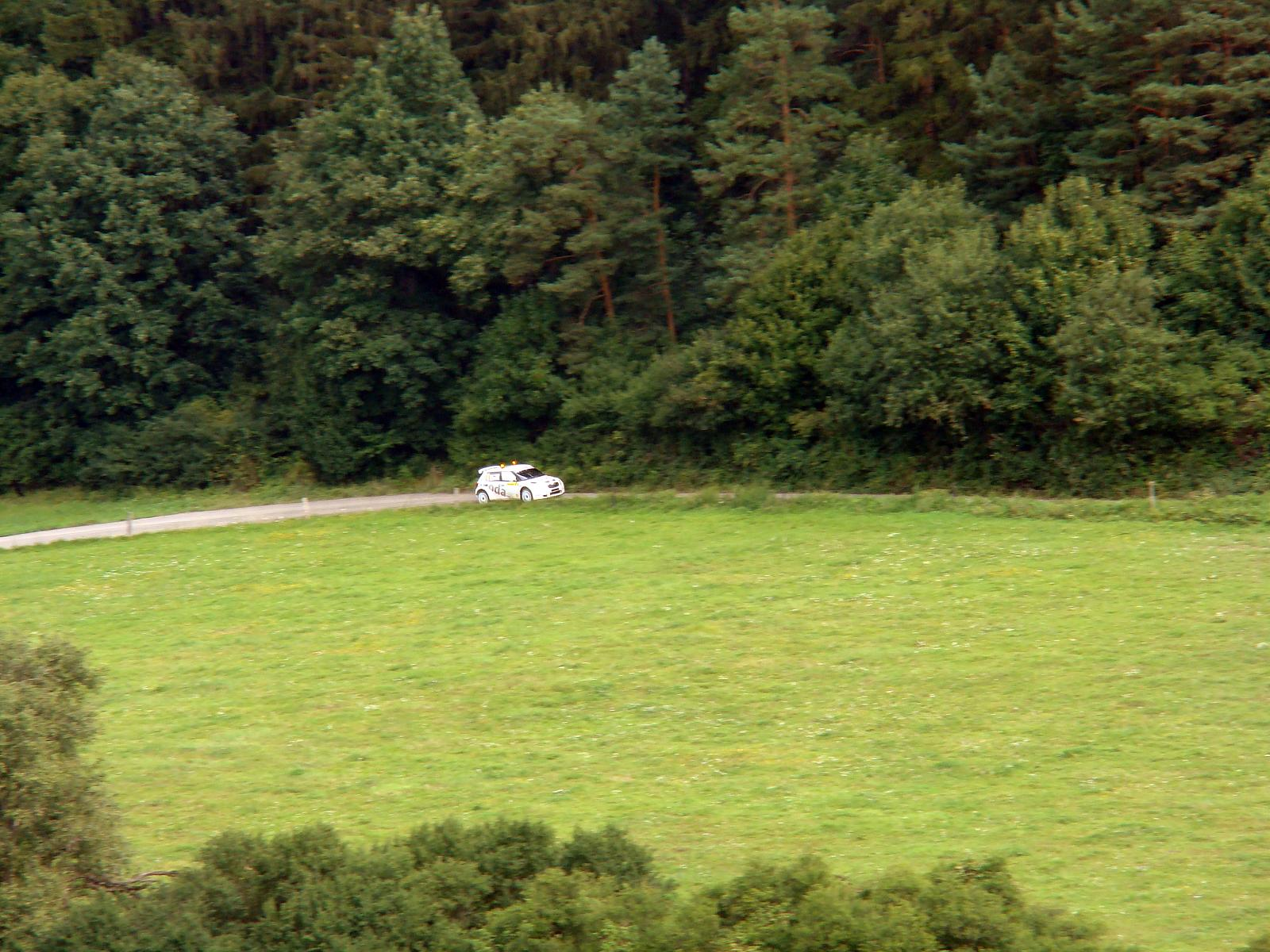 Barum Rally Zlín in 2008